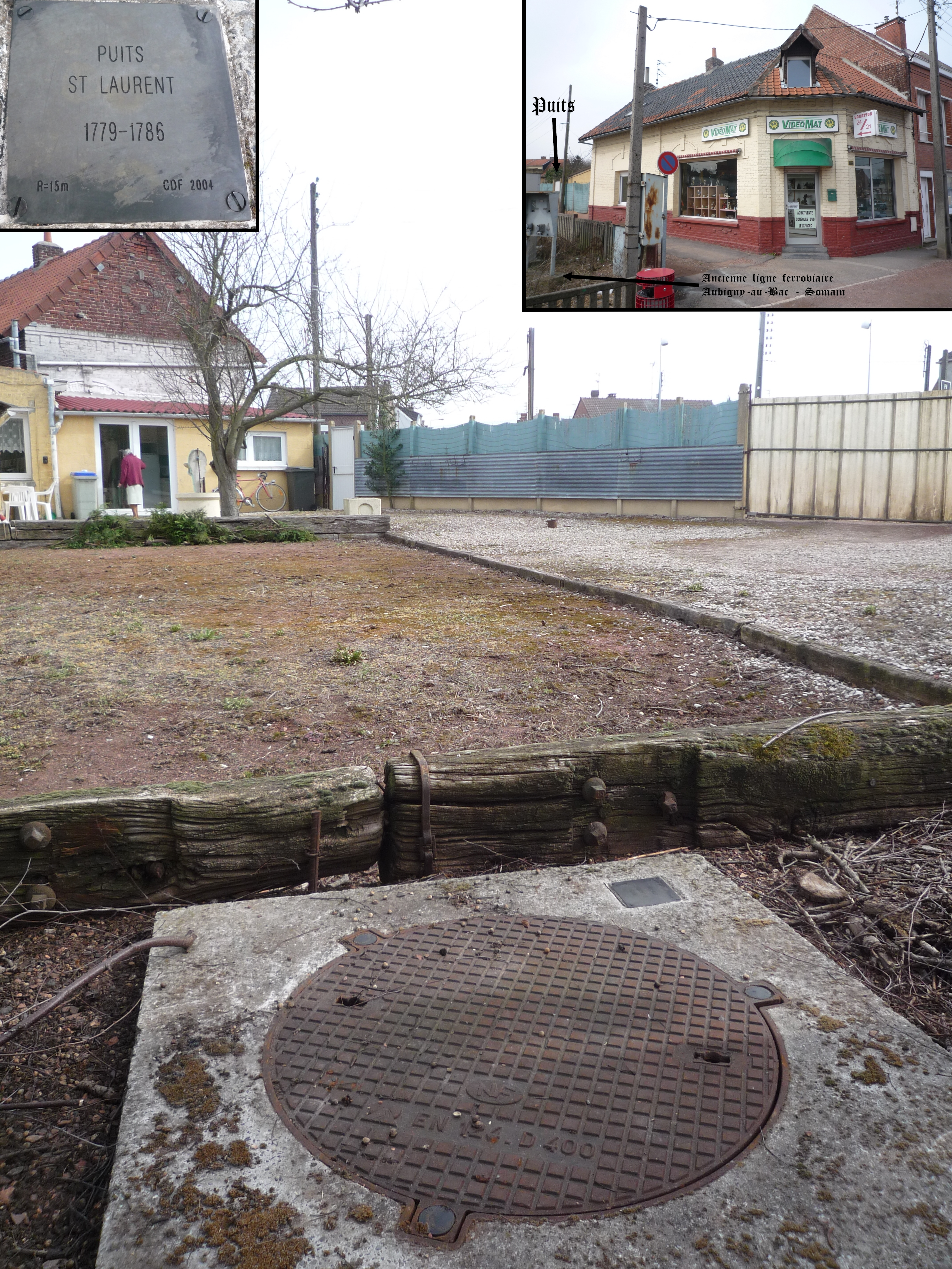 Pit Saint Laurent, Compagnie des mines d'Aniche, Aniche, Nord, Nord-Pas-de-Calais, France.